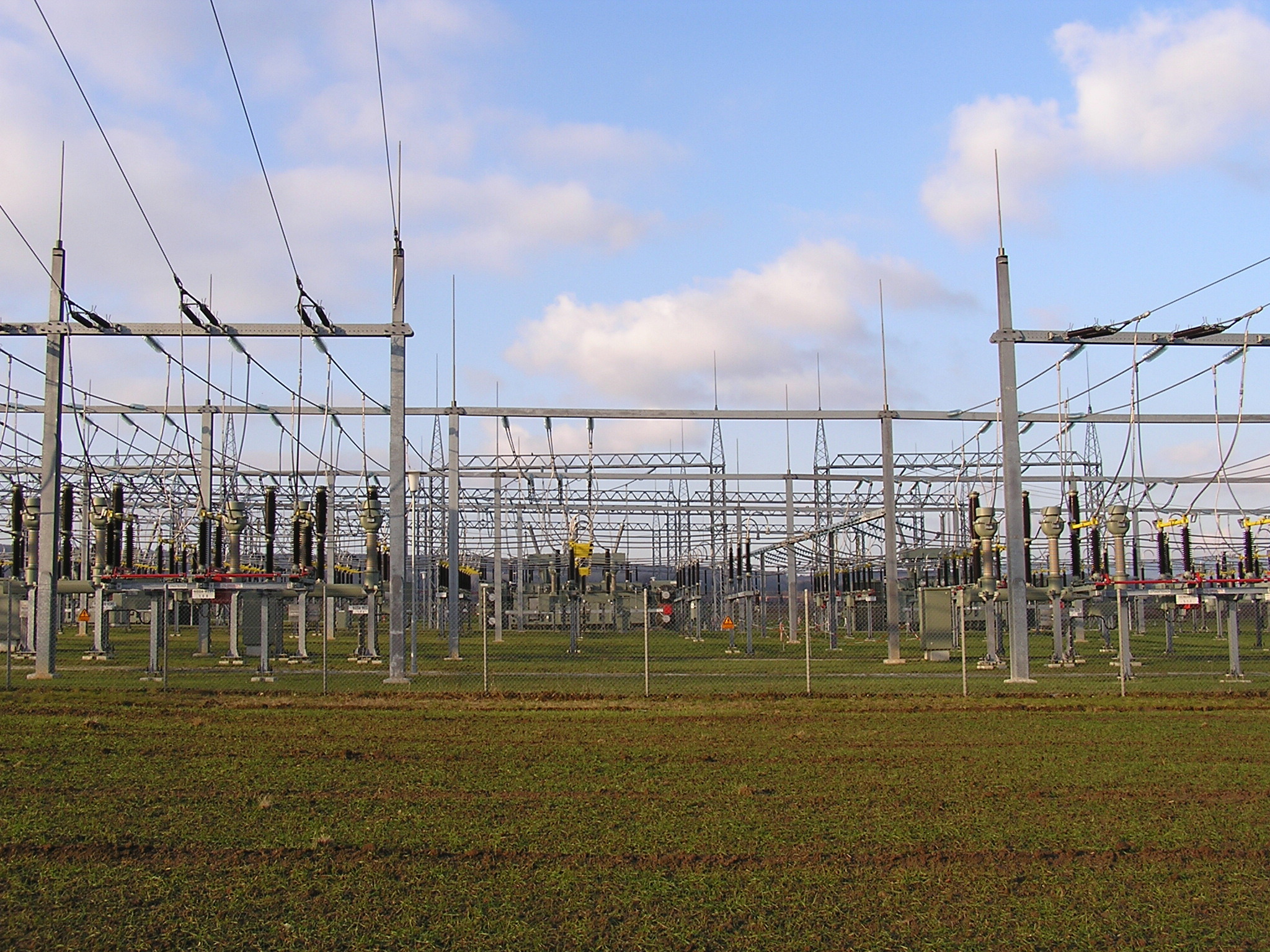 Kriftel substation - In the front anchor pylons and switchgear for 110,000 Volts, in the middle transformers, in the background switchgear for 380,000 Volts